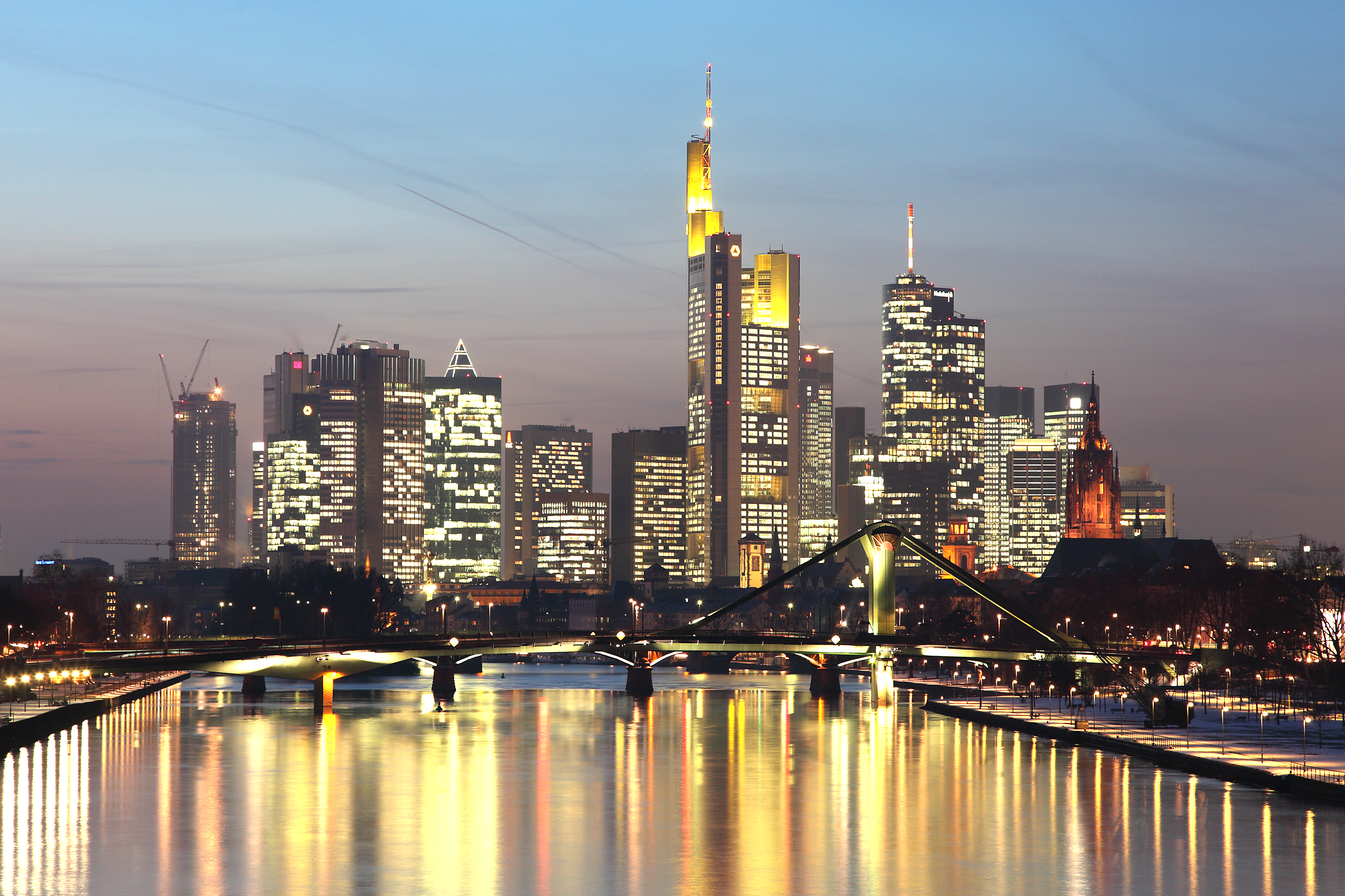 Skyline of Frankfurt am Main, Germany.